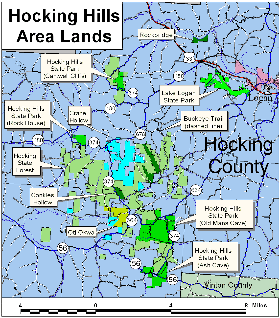 A .gif of an area map of the Hocking Hills, created by me using ArcView GIS 3.3 and .